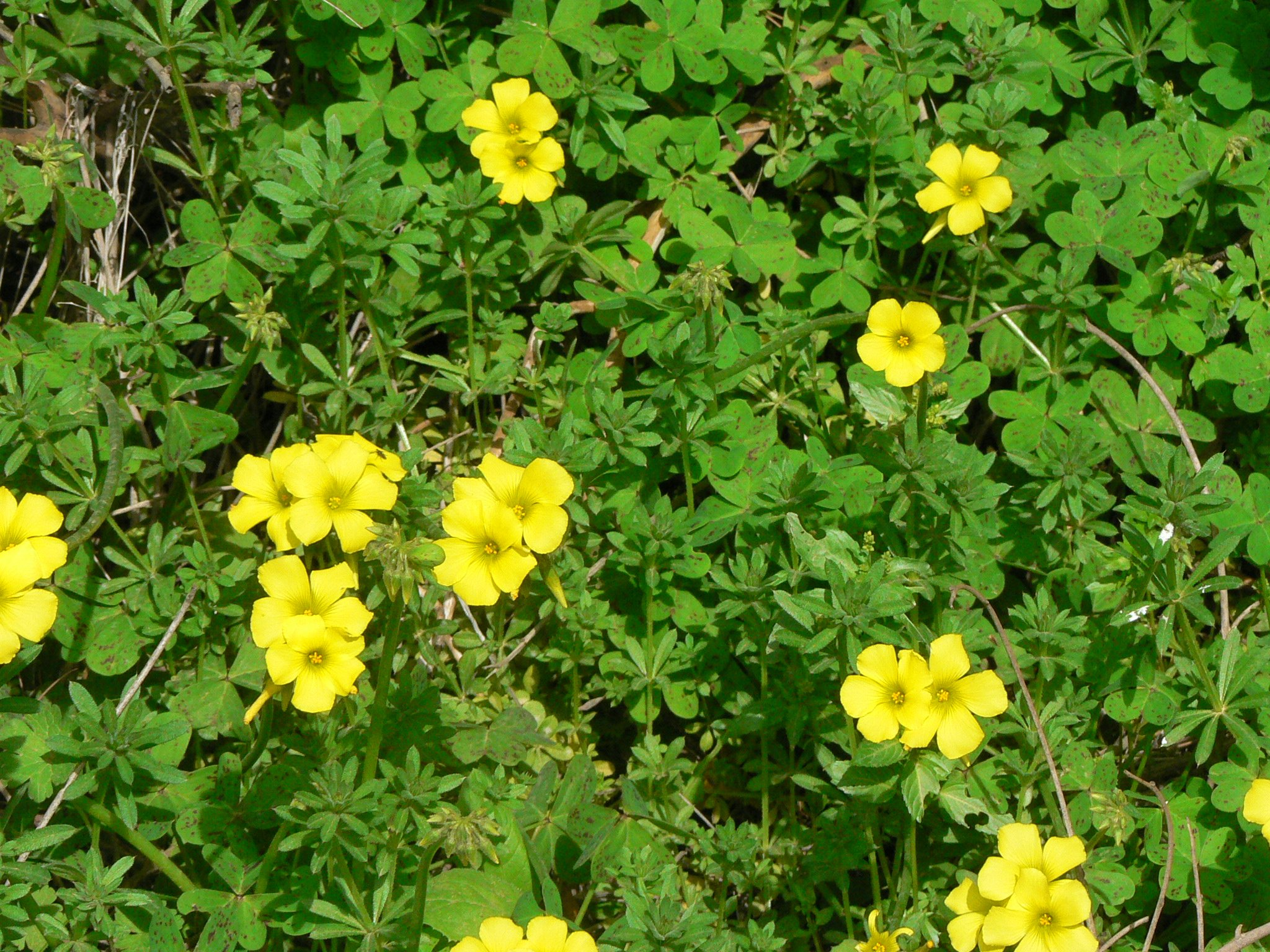 Oxalis pes-caprae Oxalis חמציץ Author: MathKnight